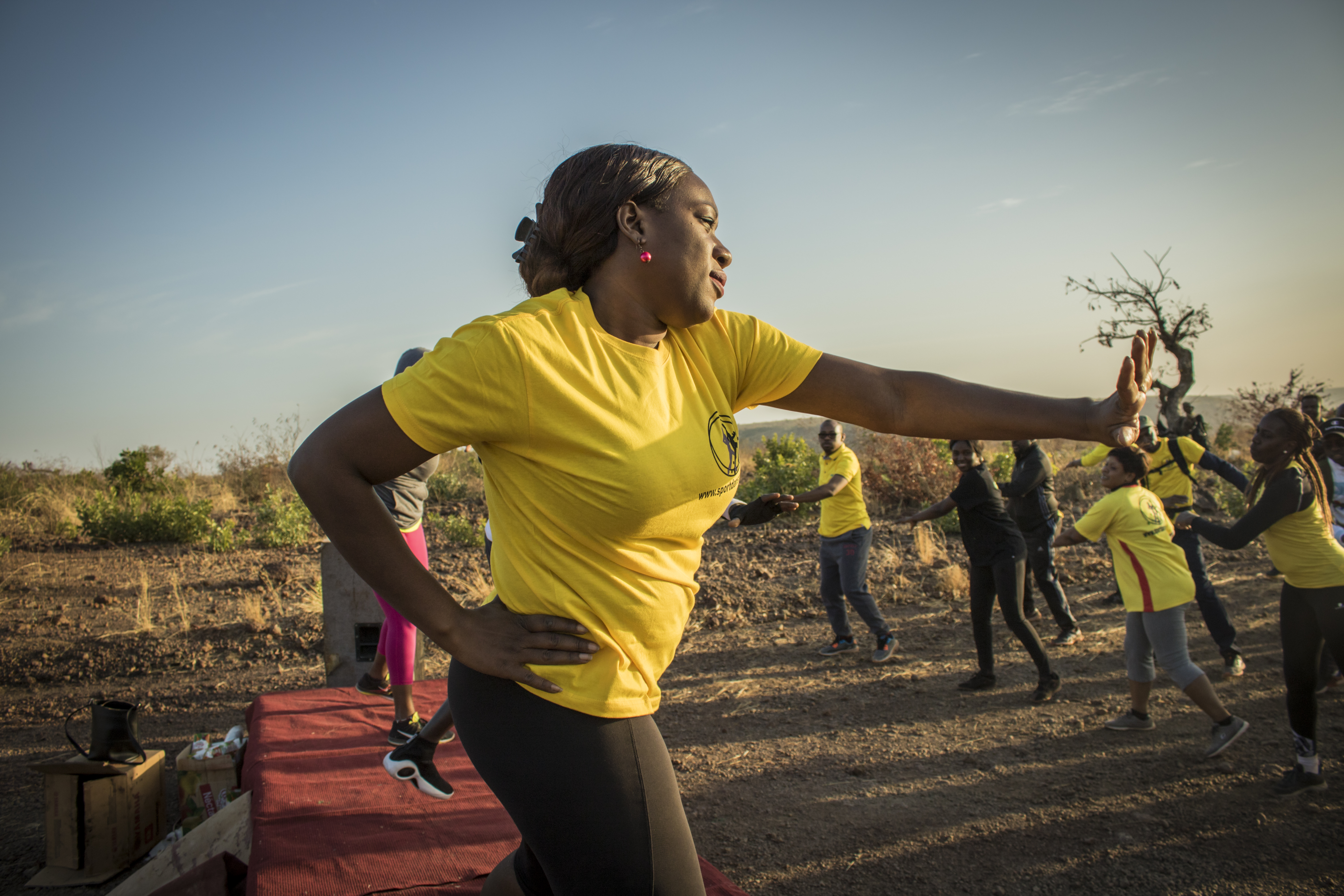 This is an image with the theme "Play" from: Mali